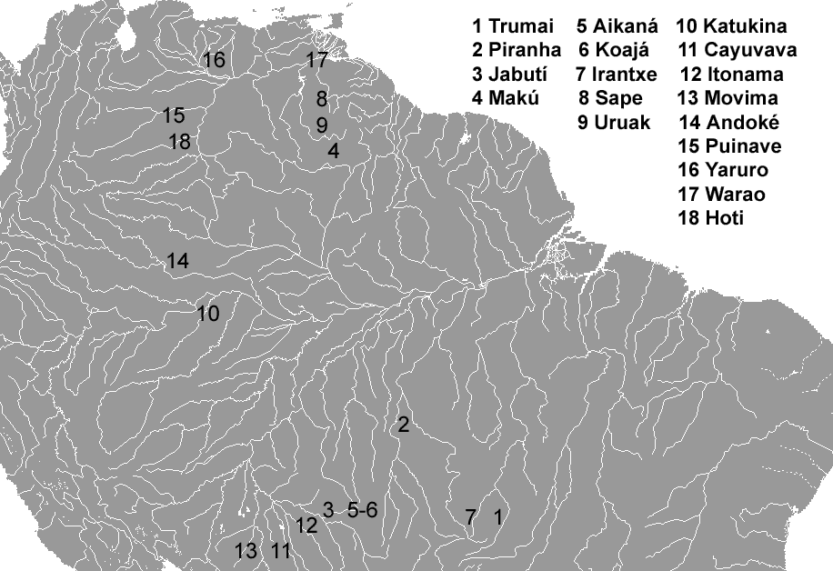 Language Isolates of Brazil, Boliva, Colombia and Venezuela. Based on data in The Amazonian Languages, Dixon & Alexandra Y. Aikhenvald (eds.), Cambridge: Cambridge University Press, 1999. p. 342.